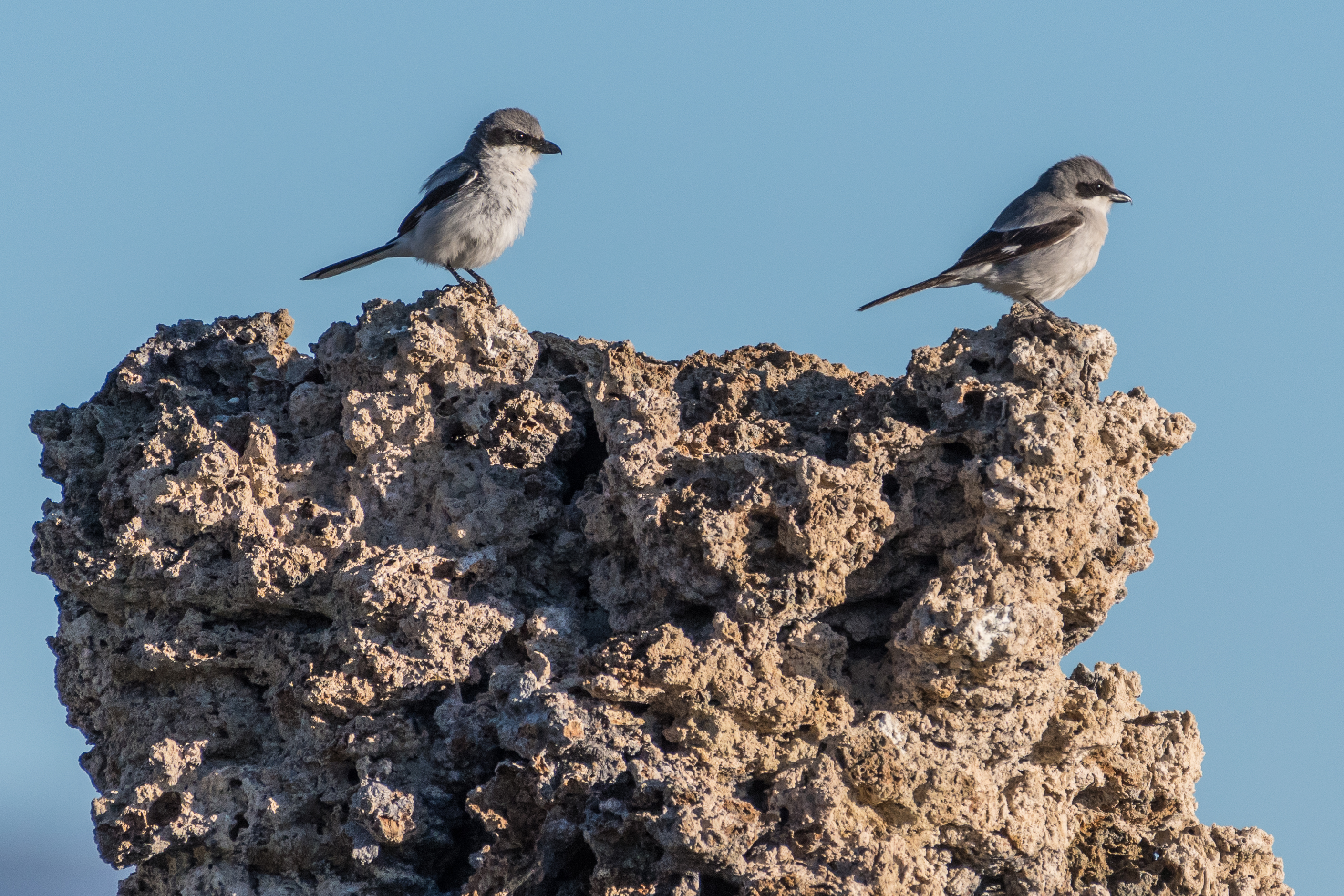 South Tufa, Mono Lake Tufa State Natural Reserve, Mono County, California I've always had trouble photographing Loggerhead Shrikes. They would always be out of reach of my lens and would fly away if I got closer. But South Tufa was a different story. Here I was able to get two at one time and behind where I was standing were two other Shrikes going about their business perching on branches or Tufa and swooping down to capture insects as they flew by. Amazing place.